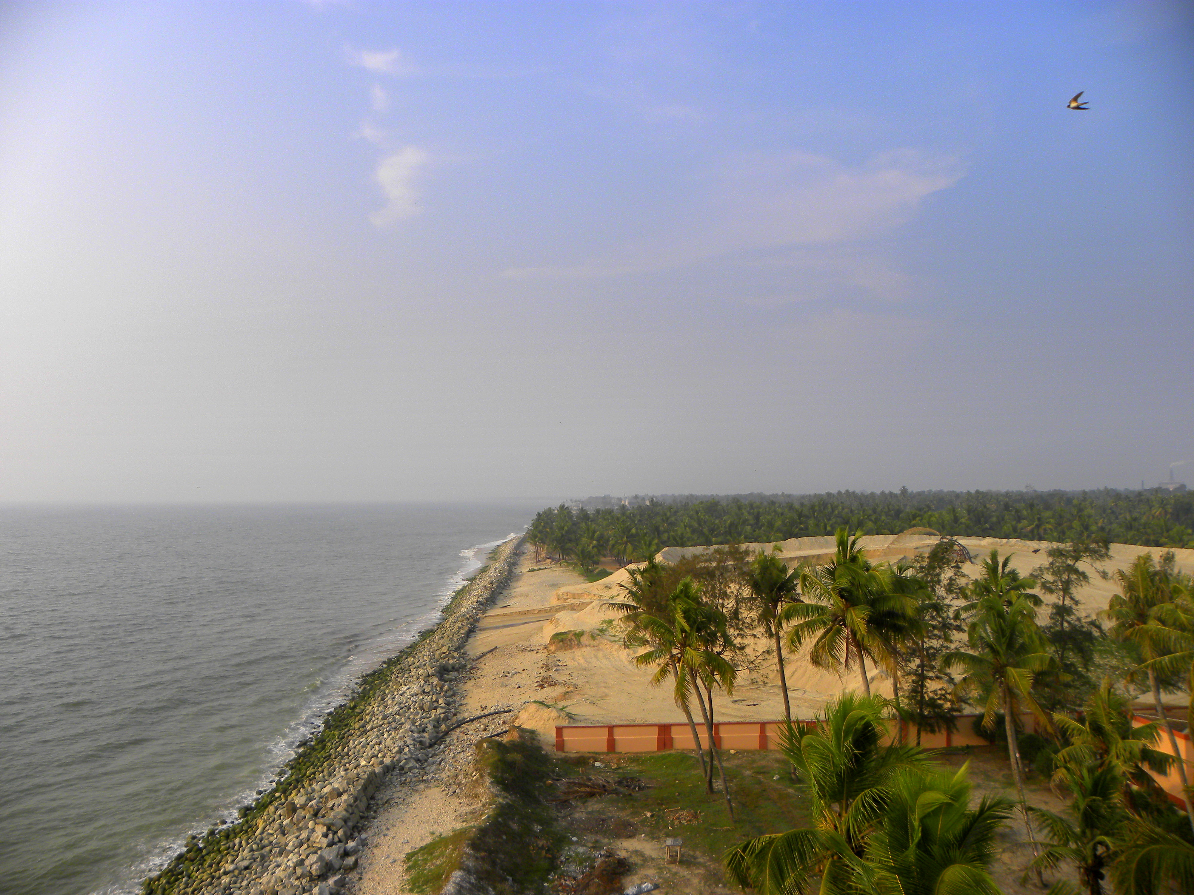 The Kollam coast in Kerala is a blessed coastal belt with the best mineral sand deposit of the country.